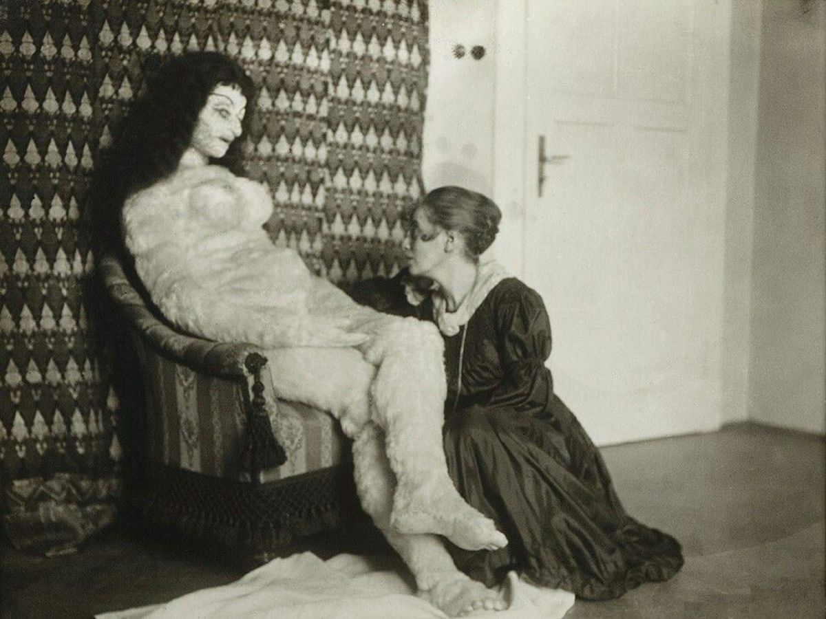 Oskar Kokoschka Alma Mahler doll (1919)